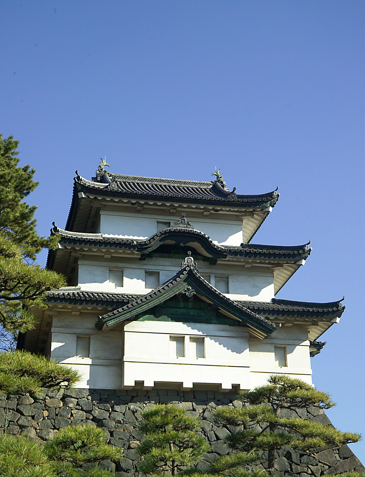 Turret of Edo Castle Kokyo Tokyo Kanto region Honshu Japan I took this photo and contribute my rights in the file to the public domain; individuals and organizations retain rights to images in it.